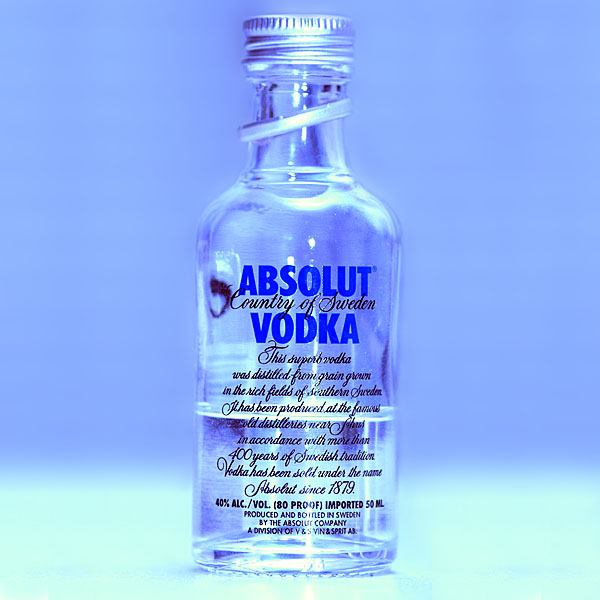 Image of an Absolut Vodka bottle, imported from Sweden